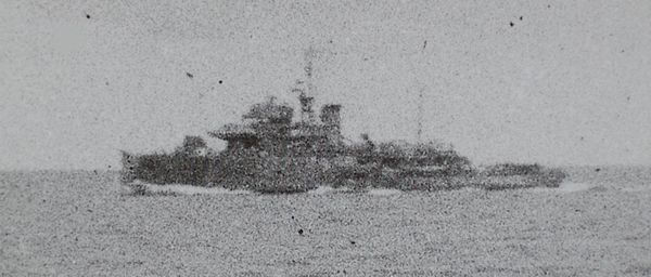 HIJMS Okitsu, escorting ShiSe-603 convoy